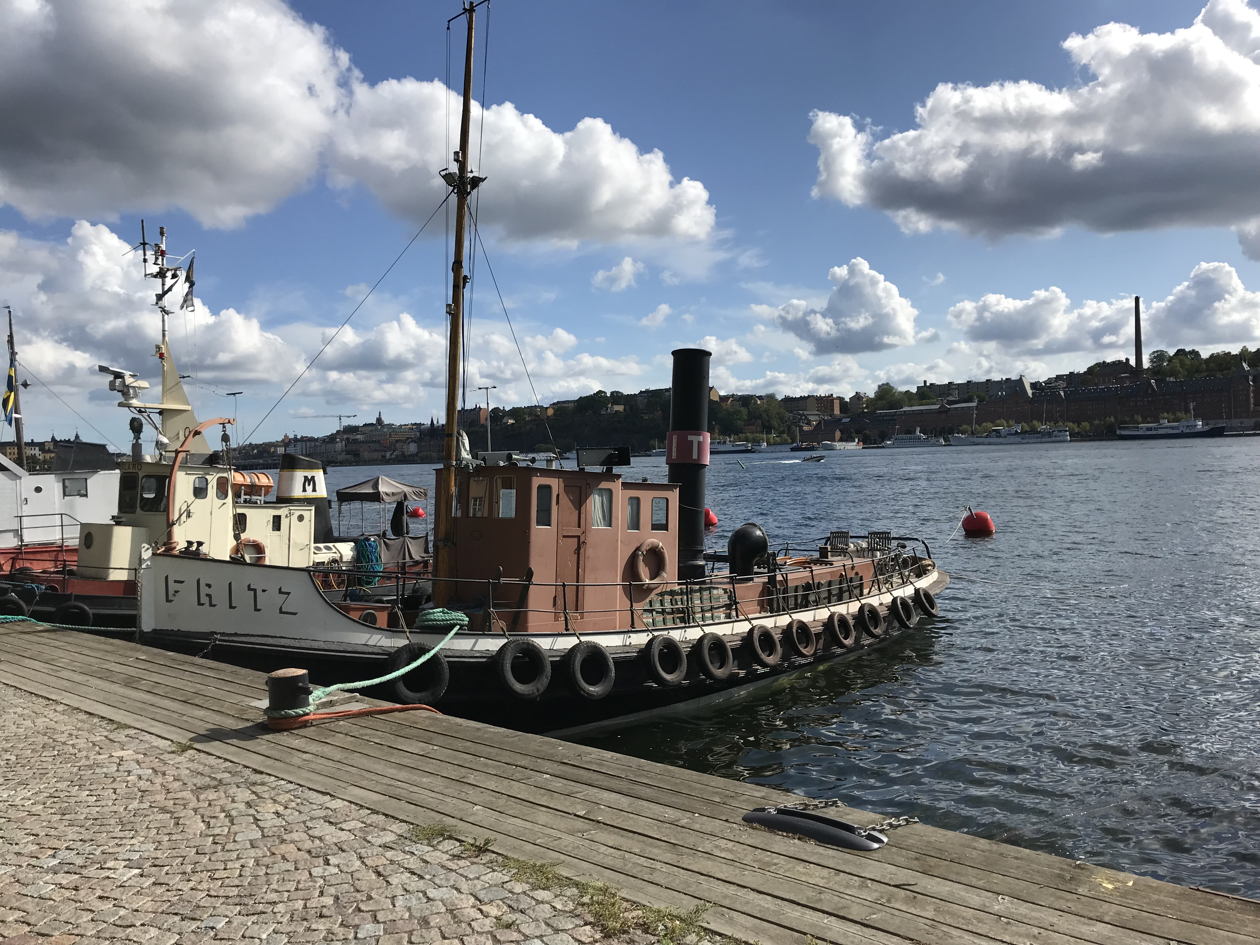 The Swedish tugboat Fritz built in Gothenburg in 1908 moored at Norr Mälarstrand, Stockholm, in September 2018.